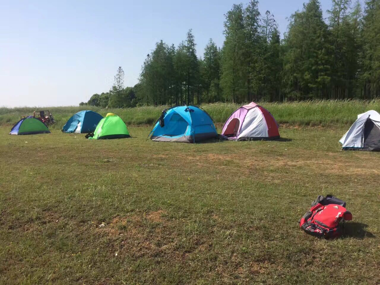 A camping site on shore side